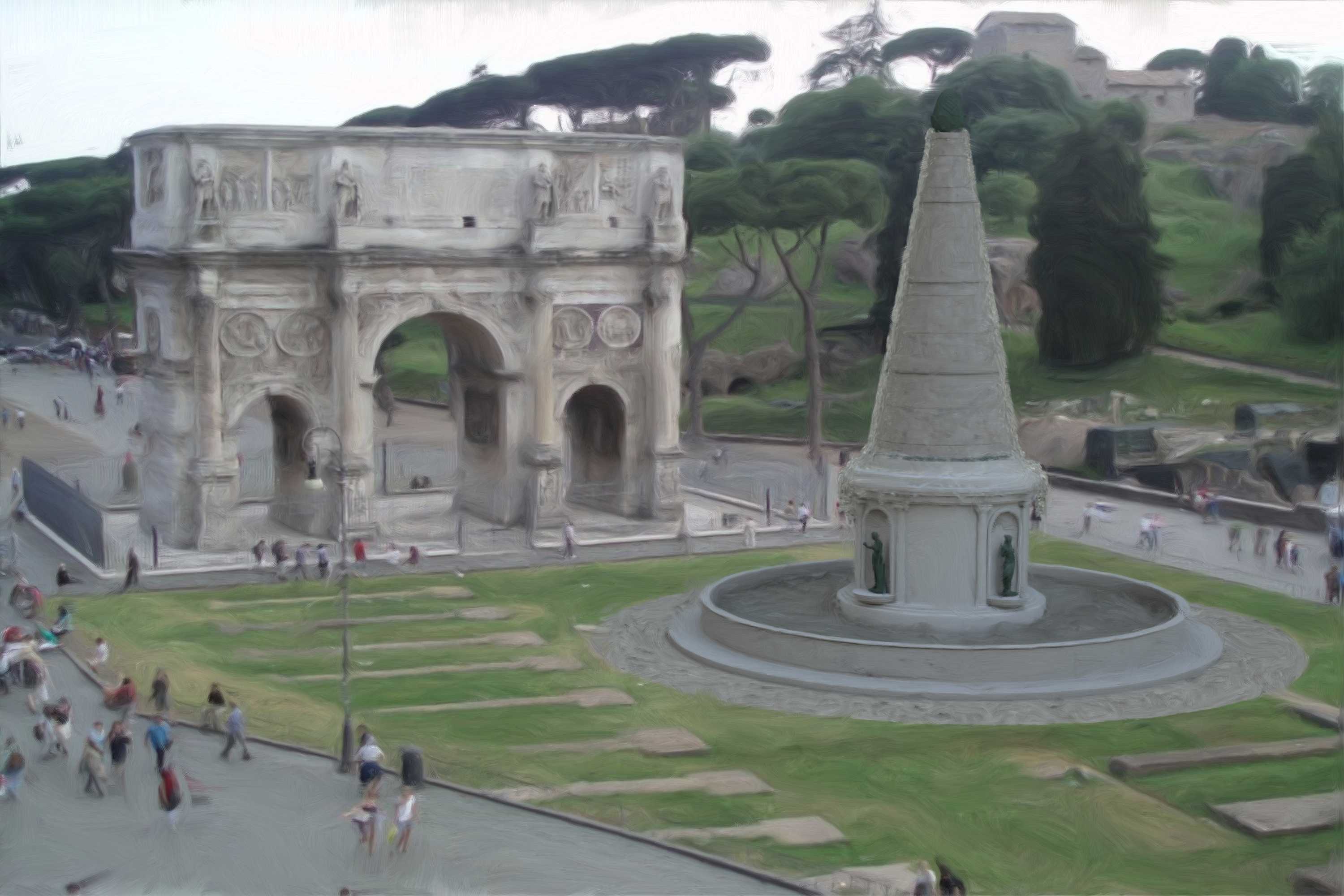 Meta Sudans